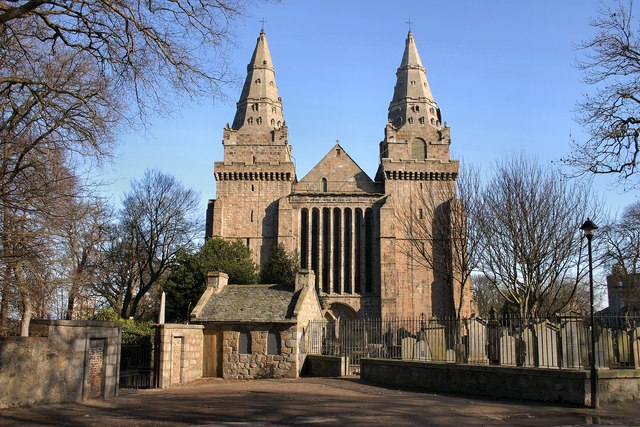 St Machar's cathedral with watch house. The small house-like building was used in the 1800s to watch out for body snatchers seeking corpses for the University anatomists.